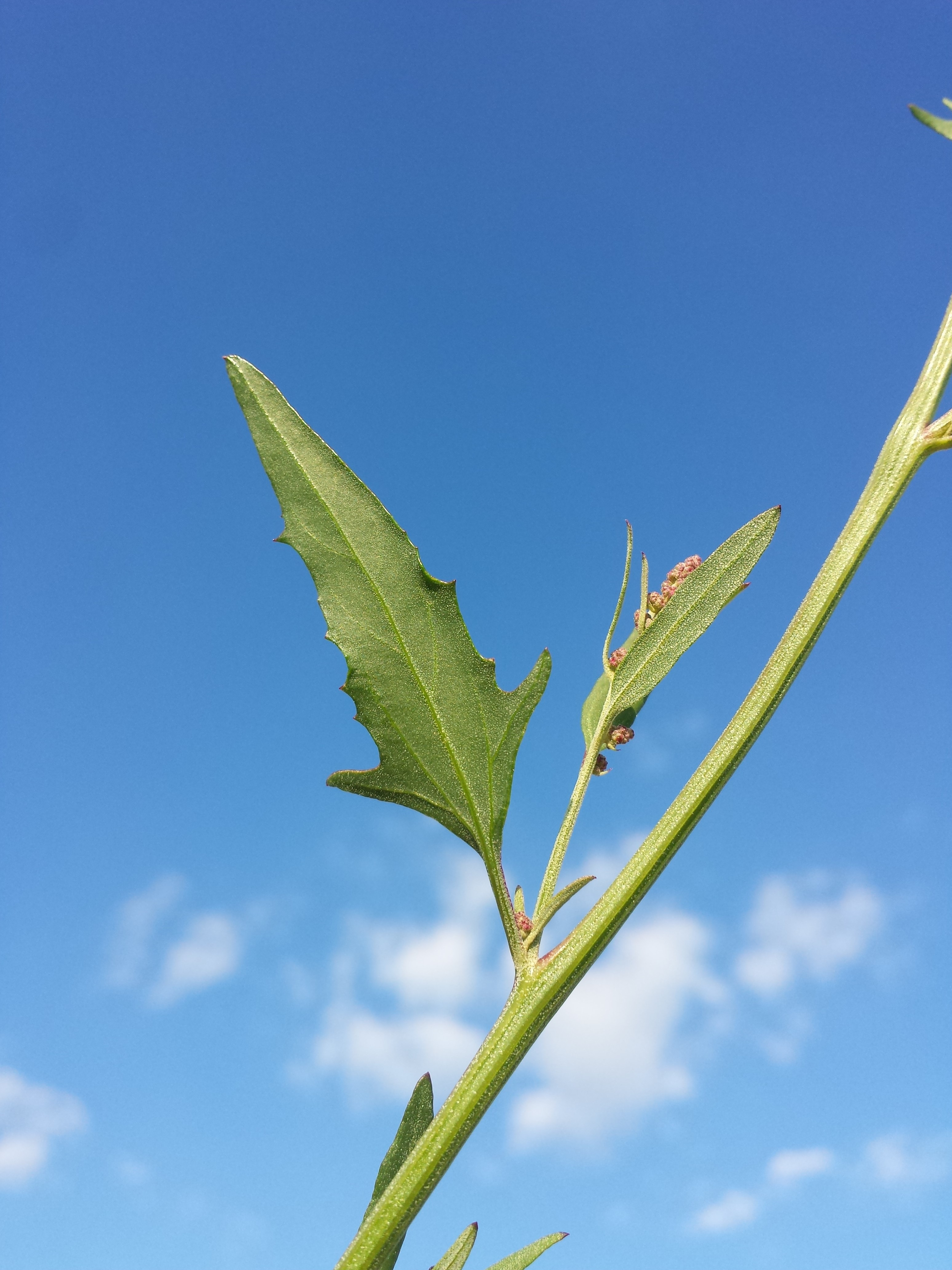 Stem with leaves (individual with predominantly male flowers) Taxonym: Atriplex patula ss Fischer et al. EfÖLS 2008 ISBN 978-3-85474-187-9 Location: An der Schanze, Donaufeld, Vienna-Floridsdorf - ca. 160 m a.s.l. Habitat: dungheap